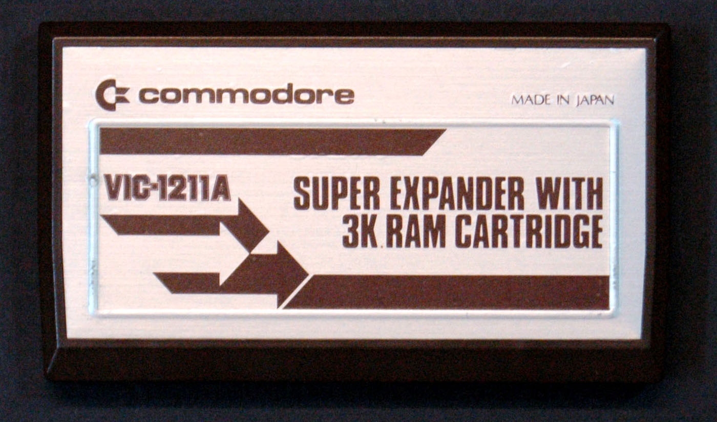 VIC-1211A Super Expander (graphic extension) with 3k RAM for Commodore VIC-20